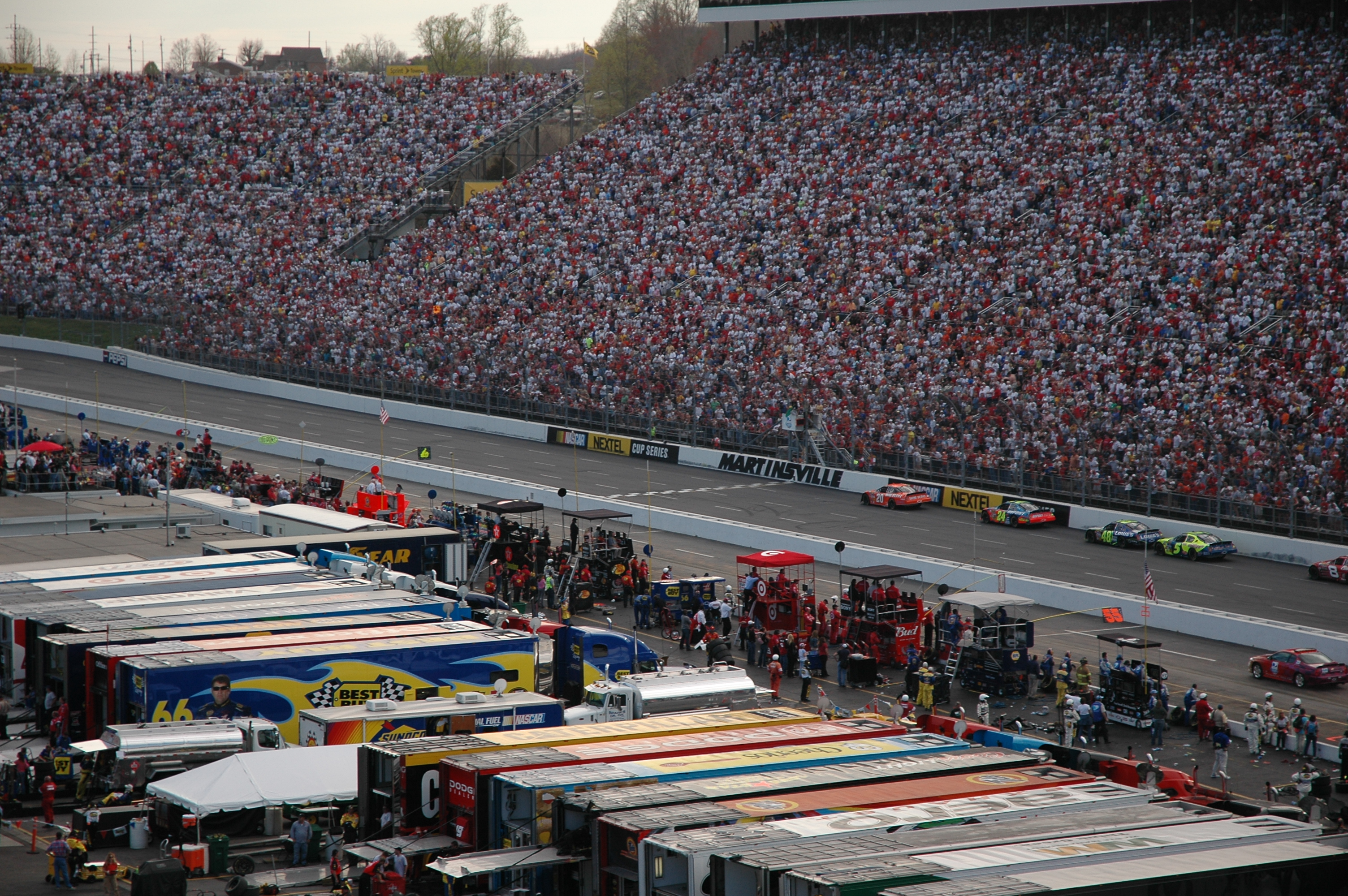 Cars racing at the finish of the spring race 2006 at Martinsville Speedway